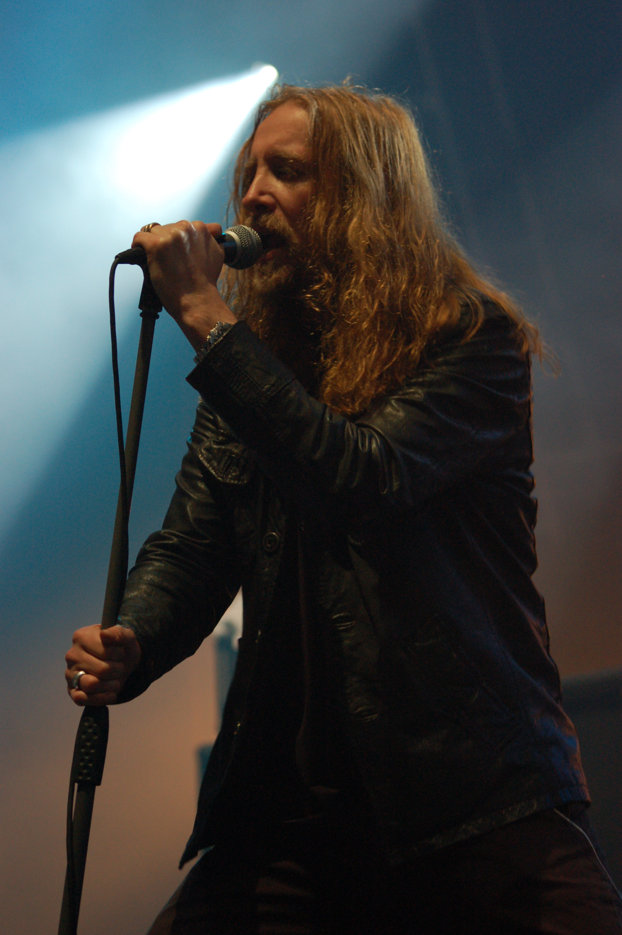 Nick Holmes from Paradise Lost during Metalmania 2007 festival